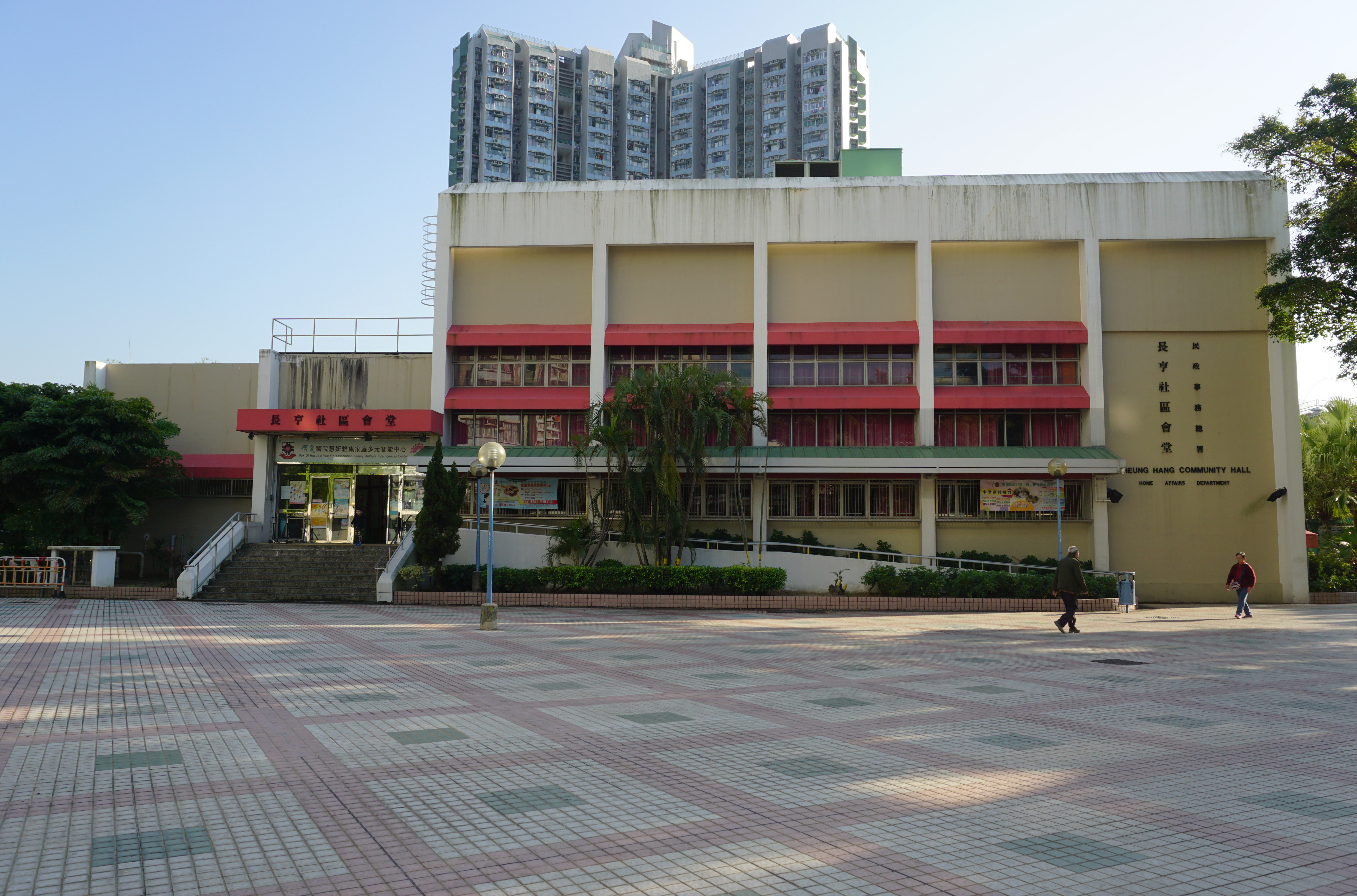 Cheung Hang Community Hall in Tsing Yi, Hong Kong.